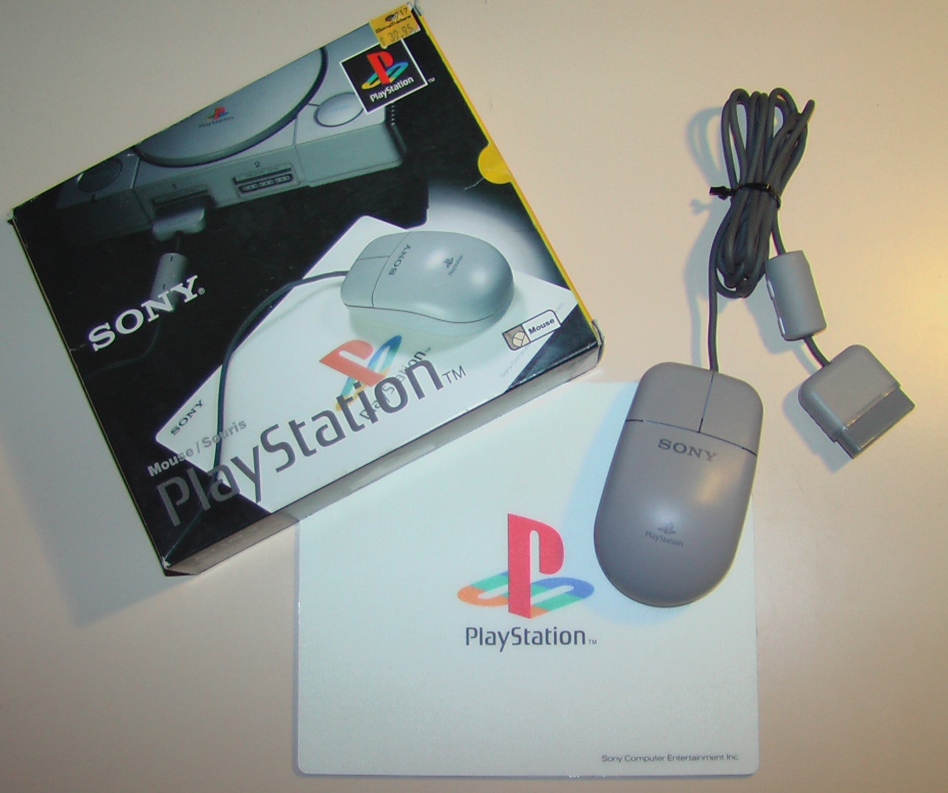 A picture of the original PlayStation Mouse.